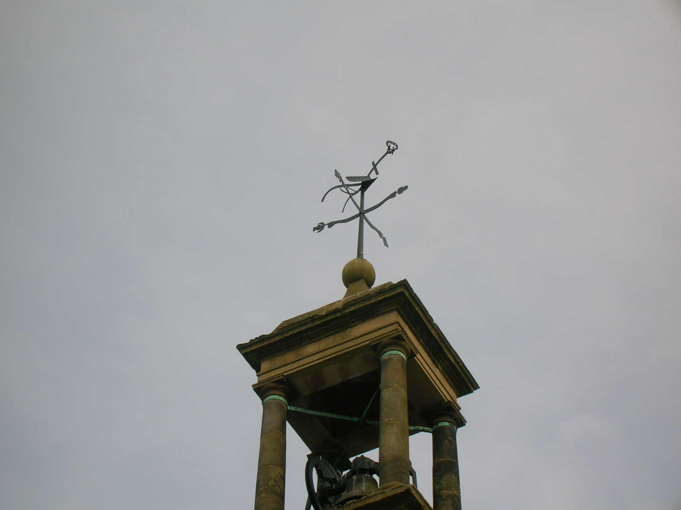 Sant John's Kirk, Lochwinnoch, Inverclyde, Scotland. Weathercock with plough design.